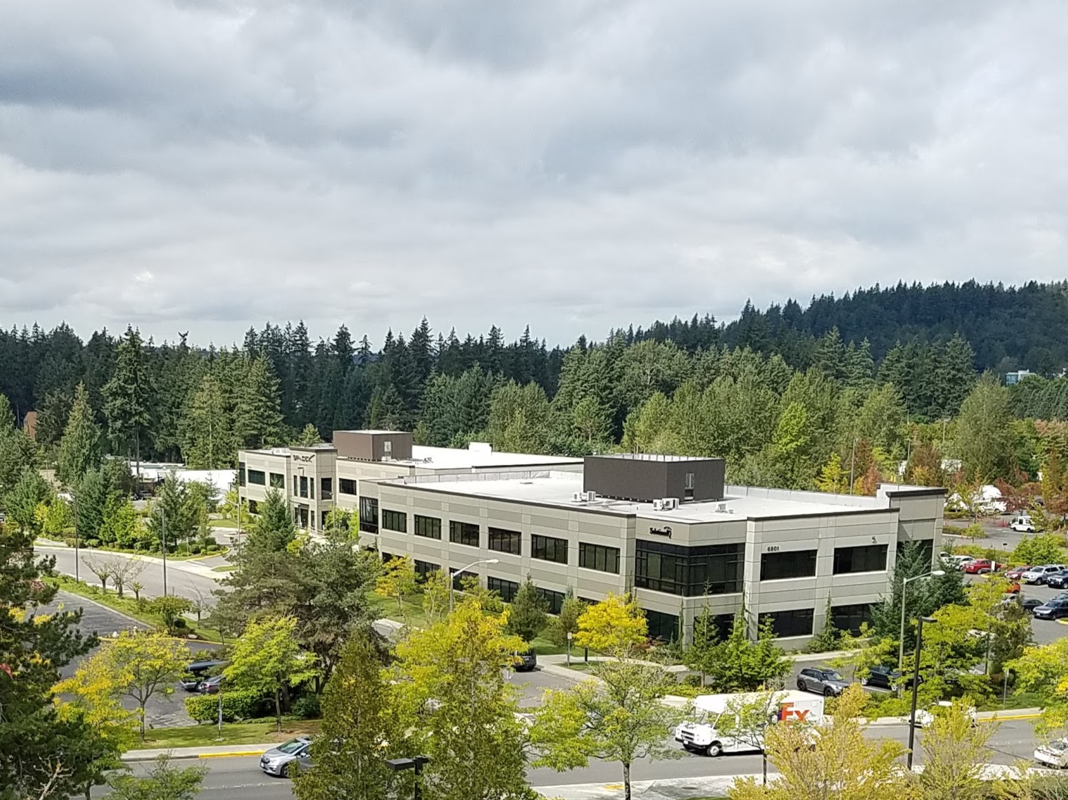 This is a photograph of the SpaceX satellite development facility in Redmond, Washington, USA. August 2018.